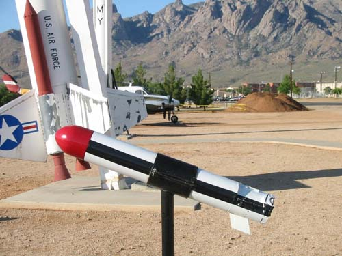 A surface-to-surface missile carried on tanks and light armored assault vehicles.